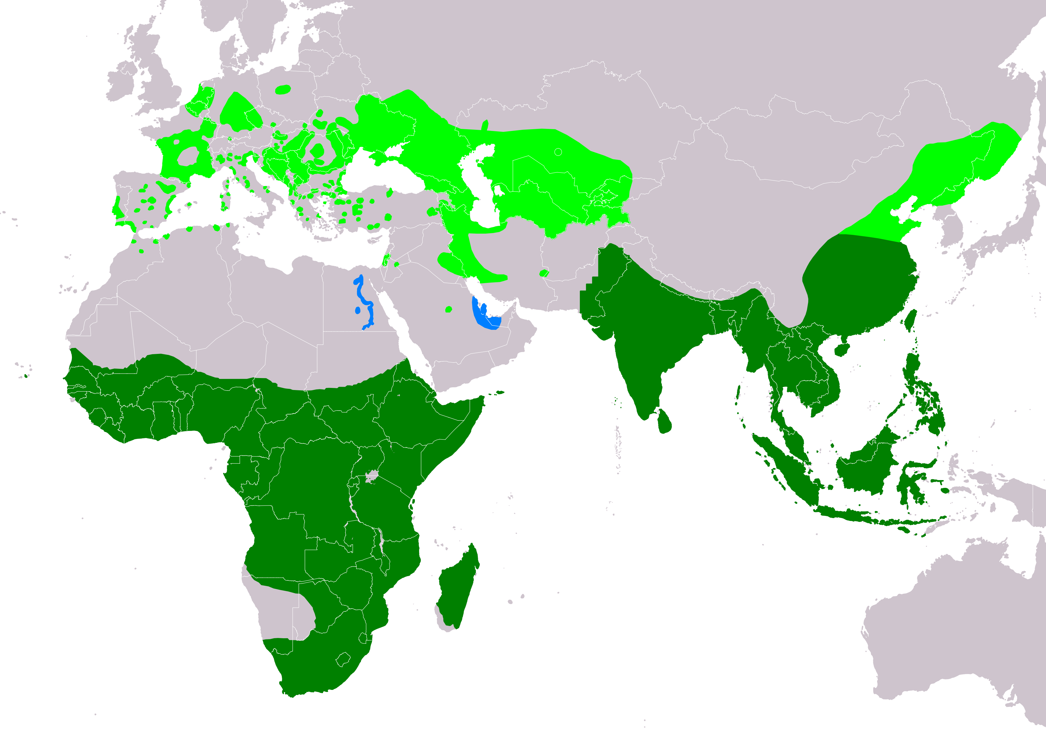 The distribution map of purple heron (Ardea purpurea) according to IUCN version 2019.1; key: Legend: Extant, breeding (#00FF00), Extant, resident (#008000),Extant, non-breeding (#007FFF)